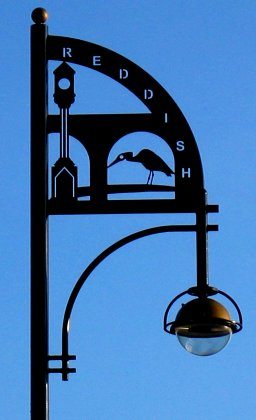 A lamppost in Reddish, Stockport. The design shows herons, a railway viaduct, and a local monument.